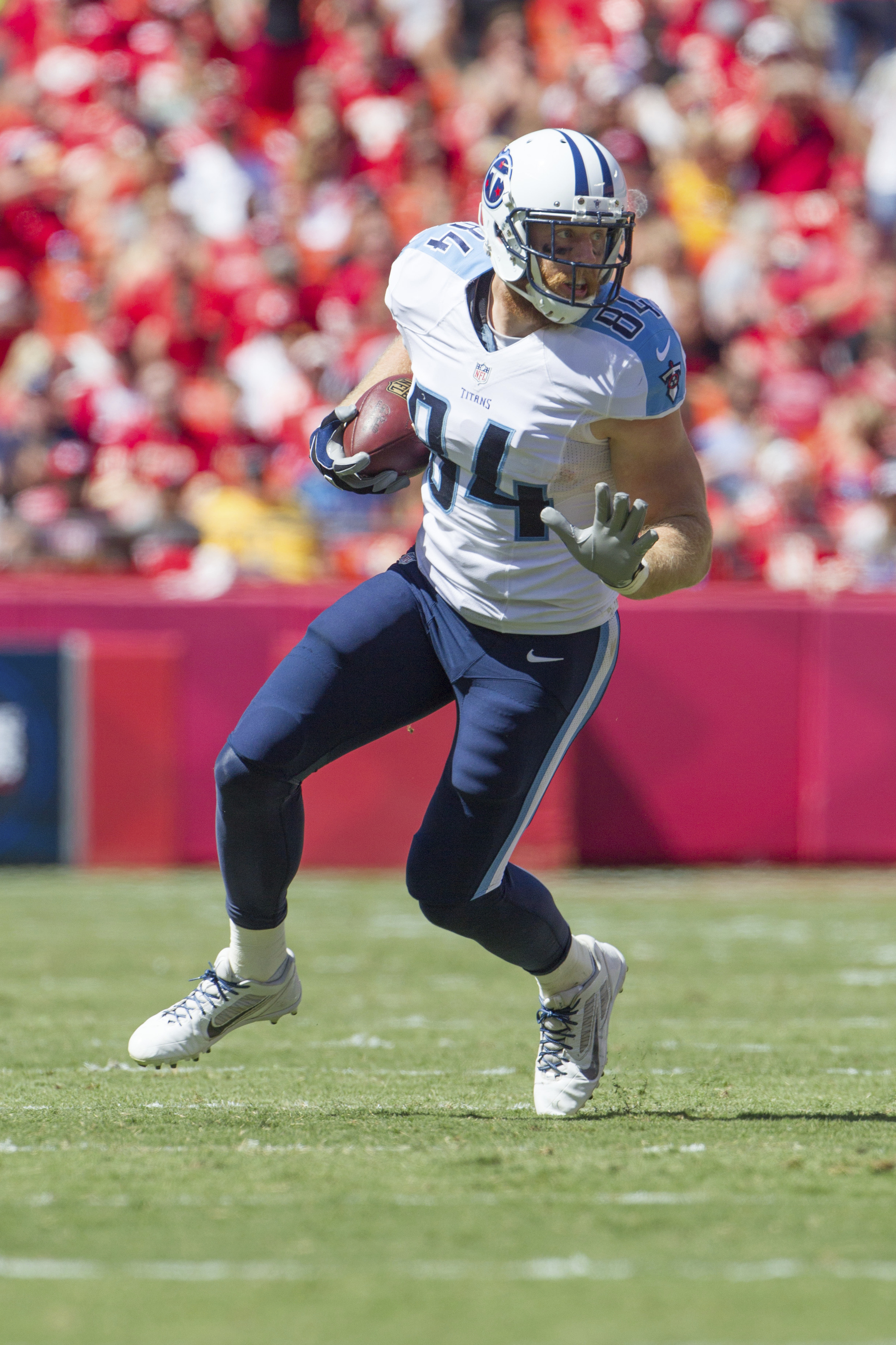 September 7, 2014: Tennessee Titans tight end Taylor Thompson (84) during the NFL game between the Tennessee Titans and the Kansas City Chiefs at Arrowhead Stadium in Kansas City, Missouri. (Icon Sportswire via AP Images)